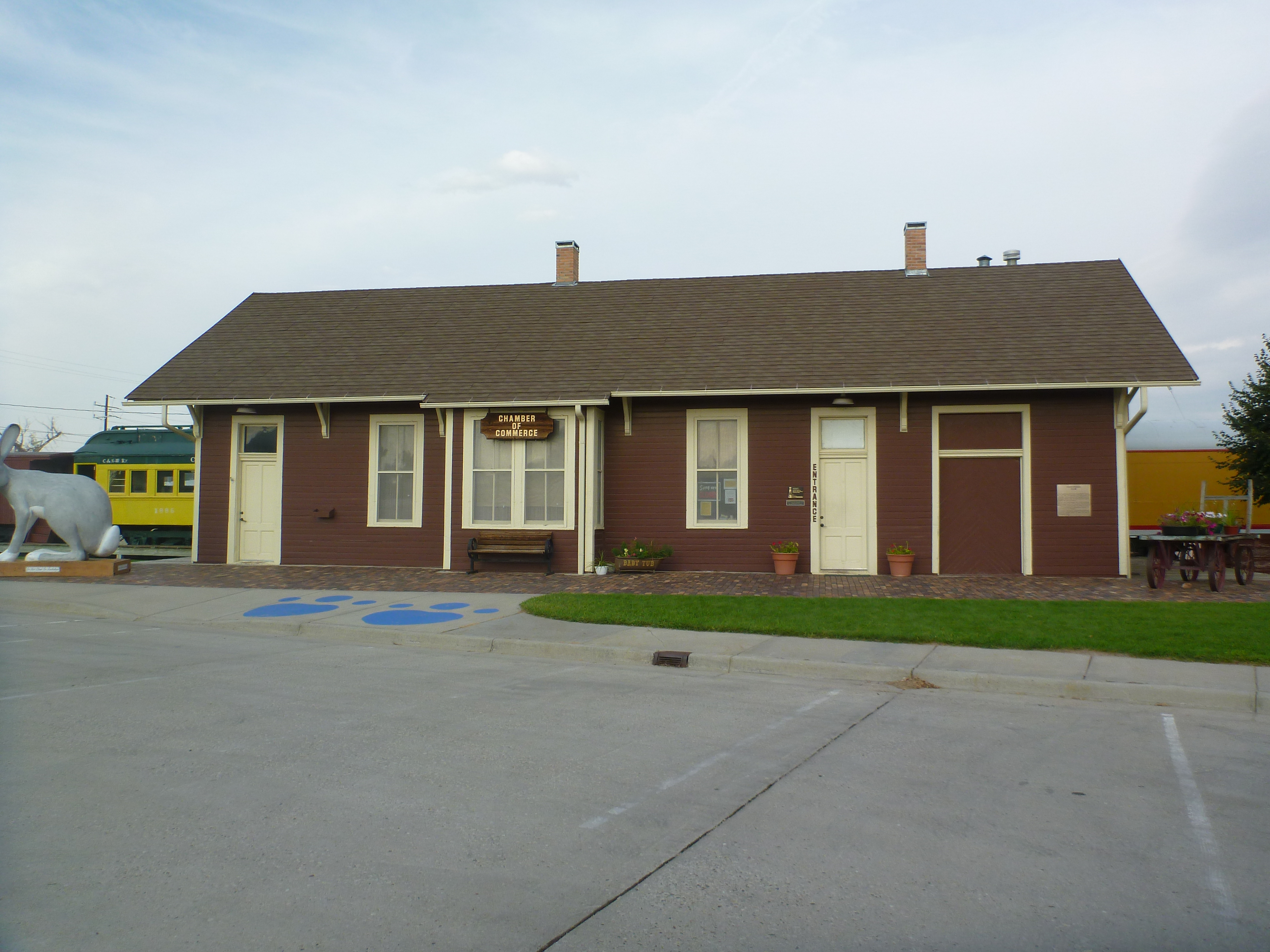 Douglas Railroad Interpretive Center Passenger and Freight Depot and Chamber of Commerce Douglas